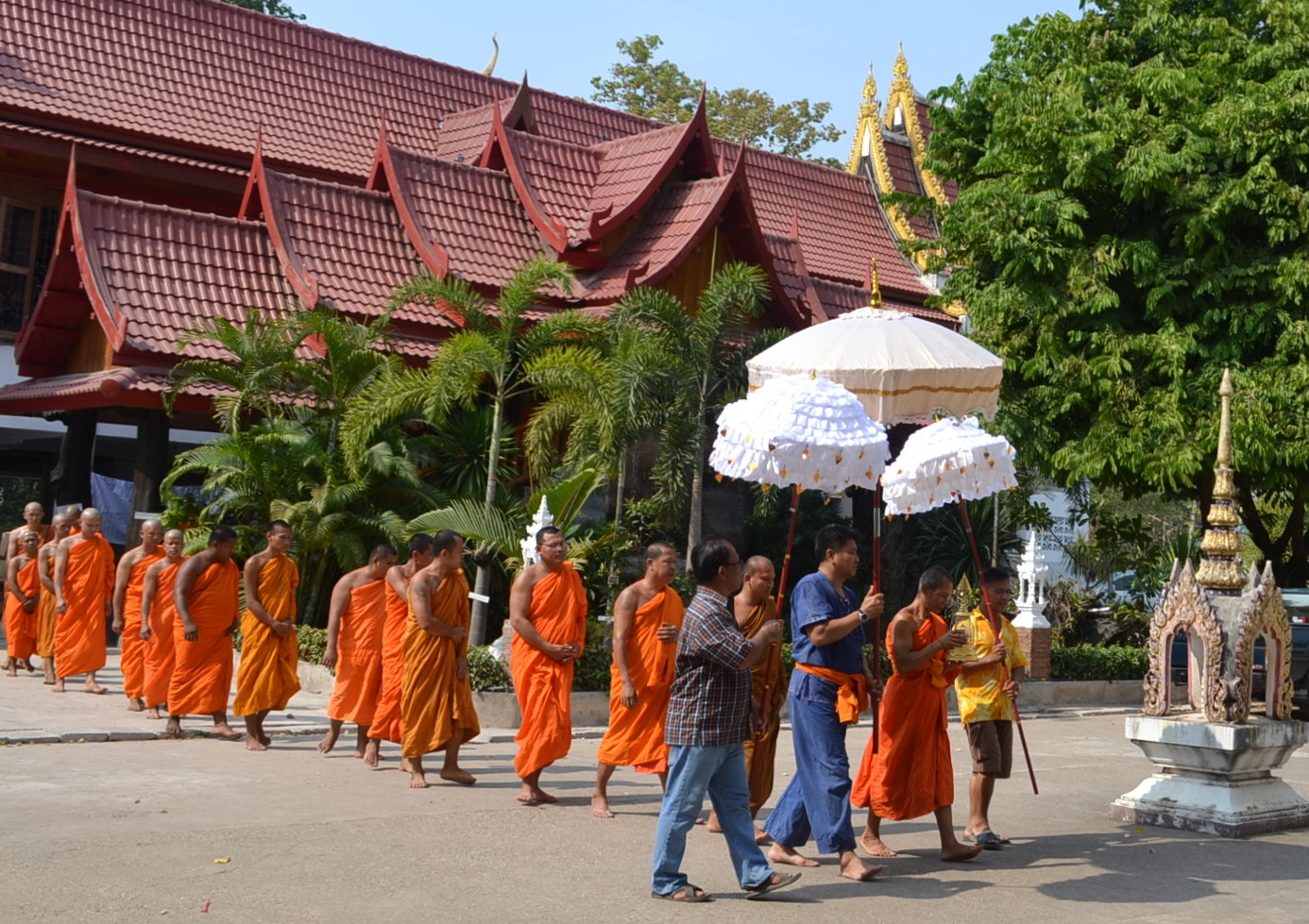 Sprinkle water onto a Buddha Relics in Songkran Festival Location: Wat Khung Taphao Ban Khung Taphao, Khung Taphao subdistrict, Mueang Uttaradit, Uttaradit Province, Thailand.